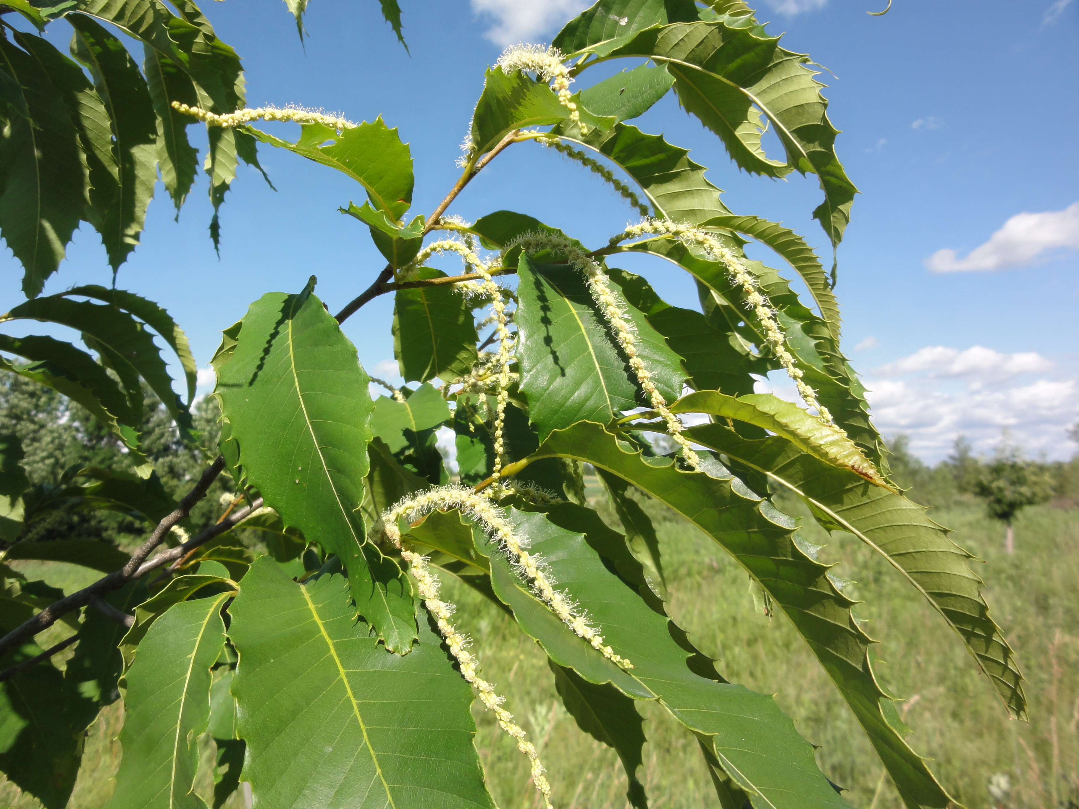 Castanea dentata (American chestnut) taken at Skaneateles Conservation Area, Skaneateles, New York